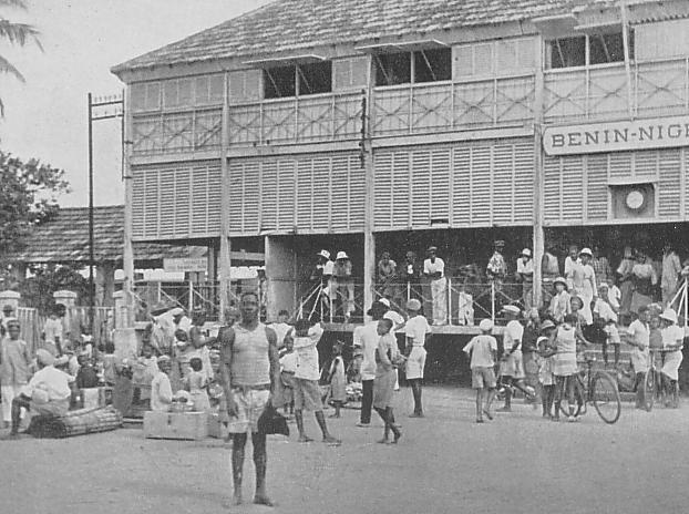 Cotonou Station in 1930s ?????